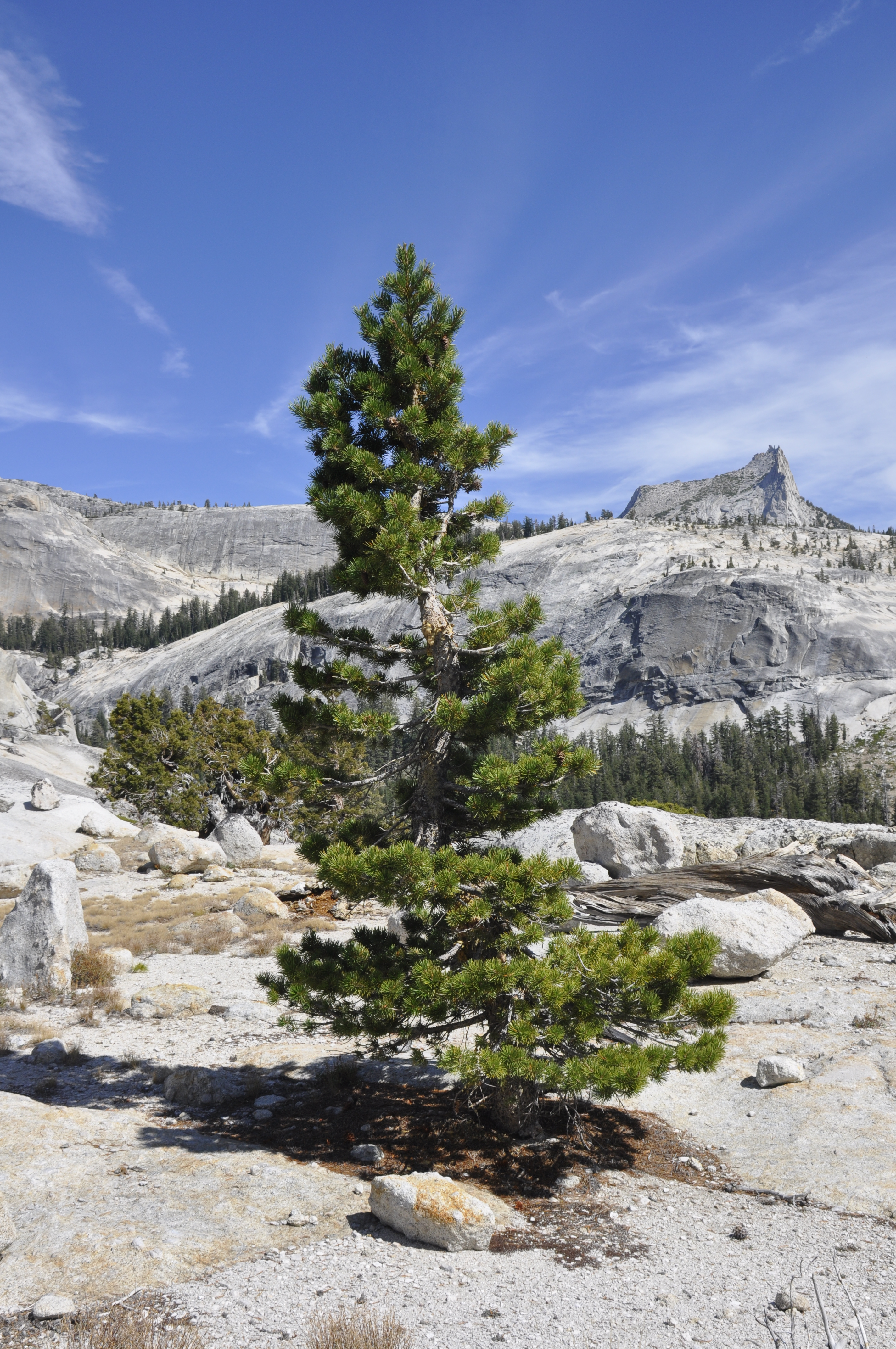 Tamarack Pine Pinus contorta subsp. murrayana on North ridge of Pywiack Dome with Cathedral Peak in the background. Tuolumne Meadows section of Yosemite National Park.